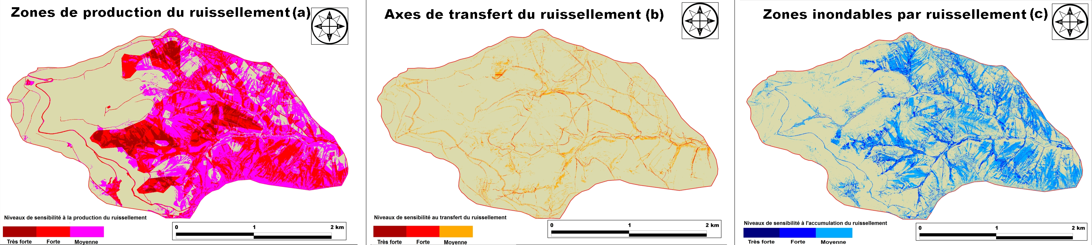 Mapping of runoff production, runoff transfer and runoff accumulation